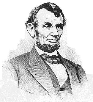 Engraving of Abraham Lincoln